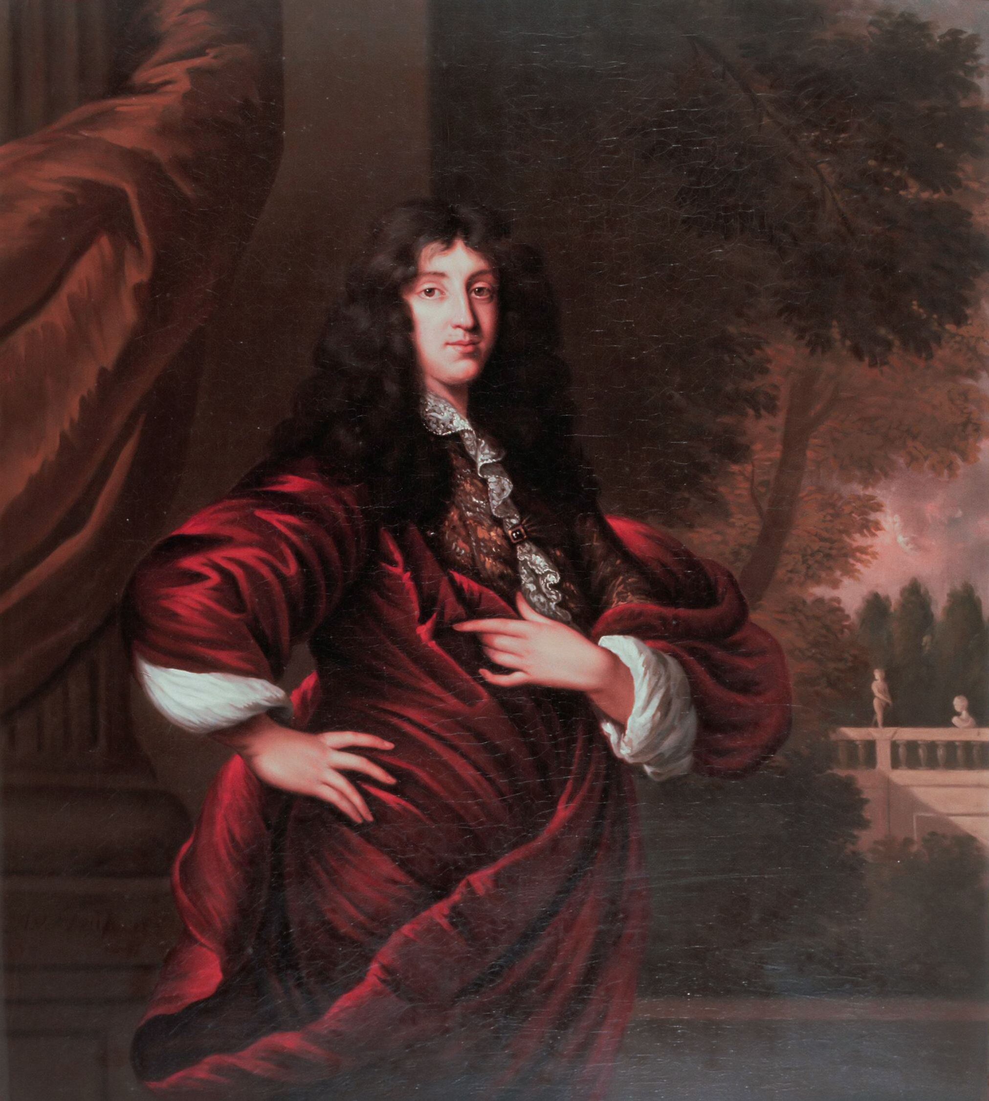 Frederik Adriaan van Reede van Renswoude (1659-1738) oil on canvas 63 x 54 cm signed b.l.